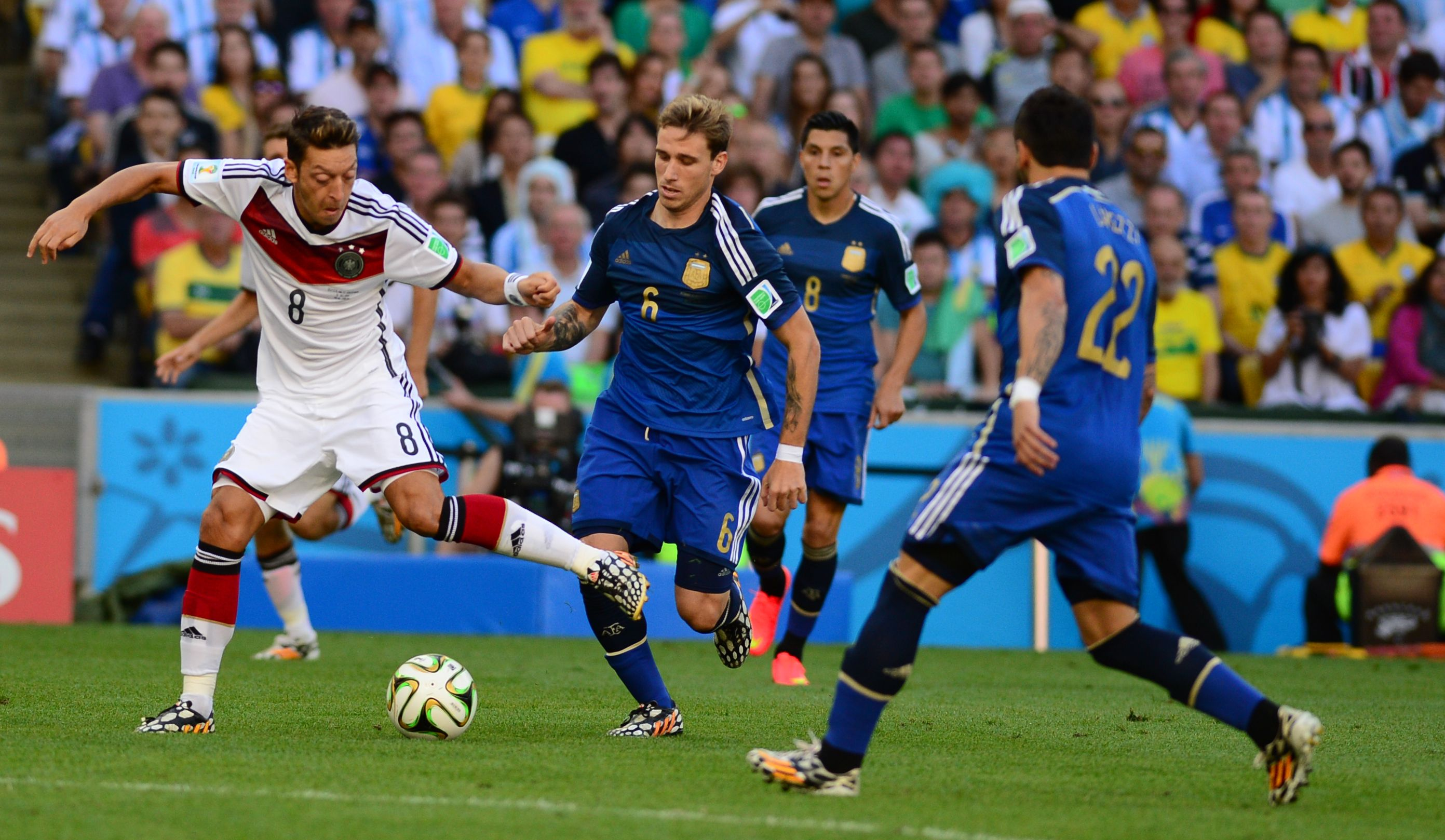 Germany and Argentina face off in the final of the World Cup